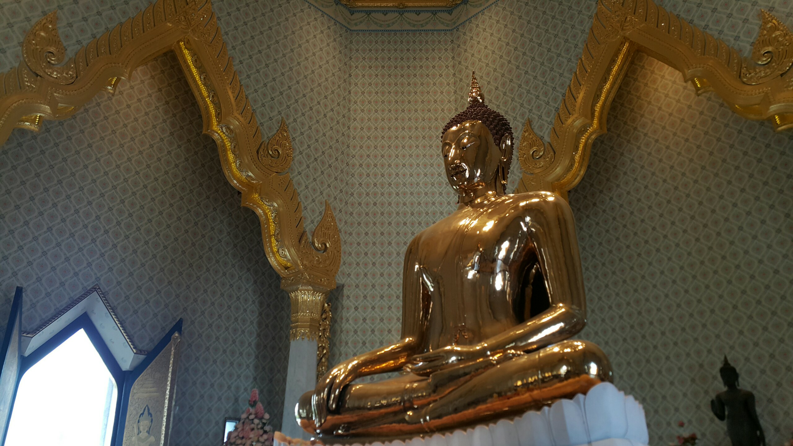 Wat Traimaits Bangkok Golden Buddha